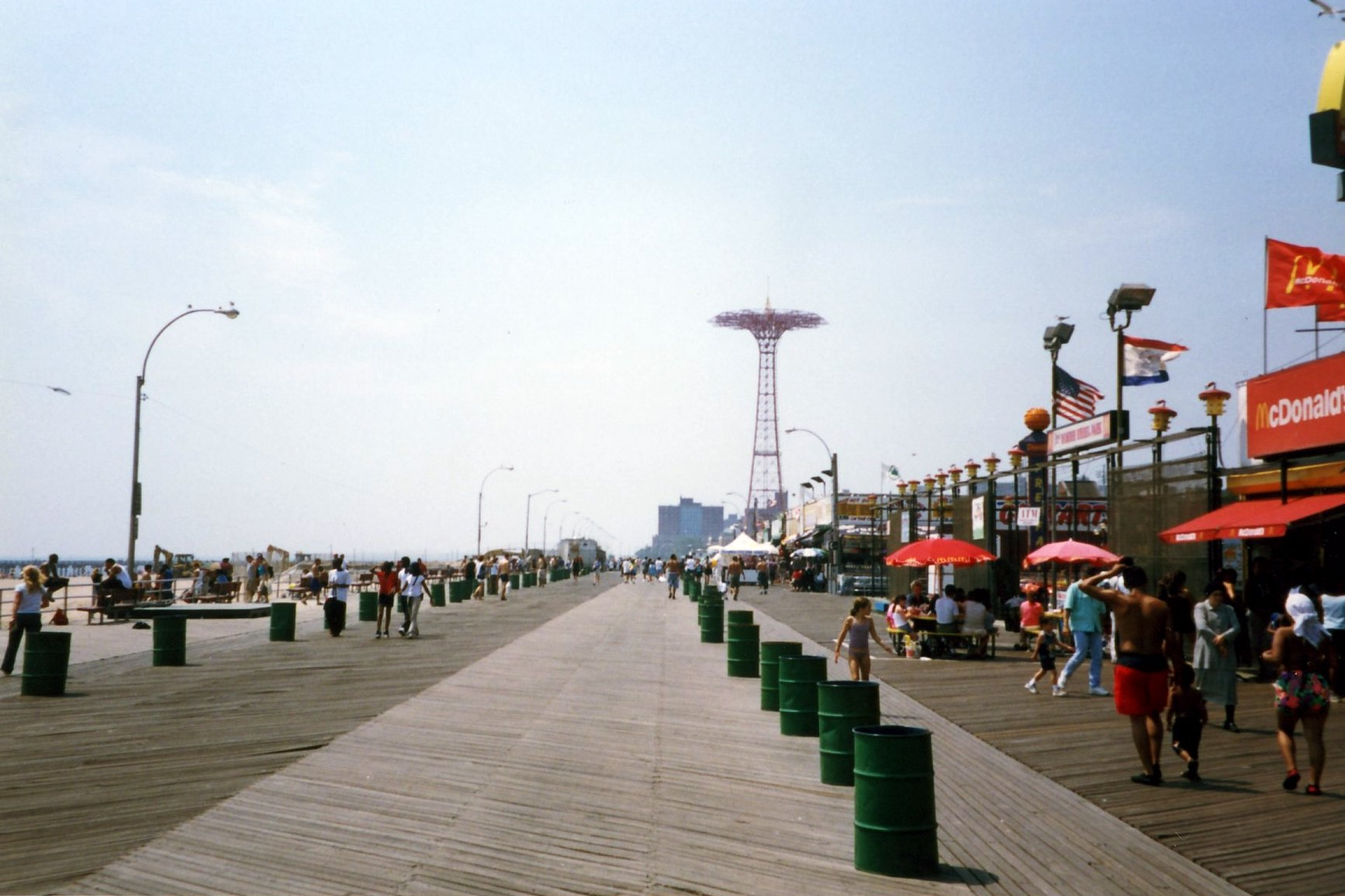 View down Riegelmann Boardwalk, Coney Island, New York. The famous Parachute Jump is in the background.